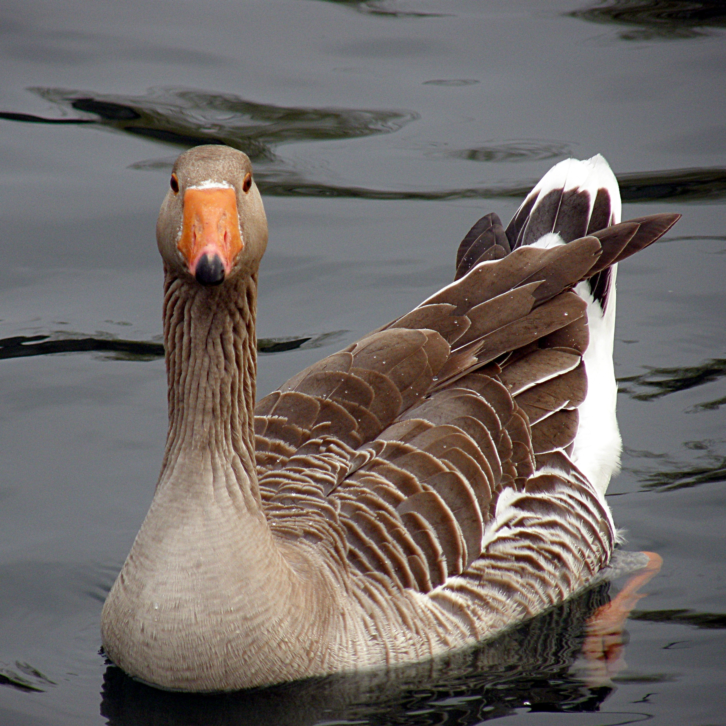 A Greylag Goose in Nord-Pas-de-Calais, France.